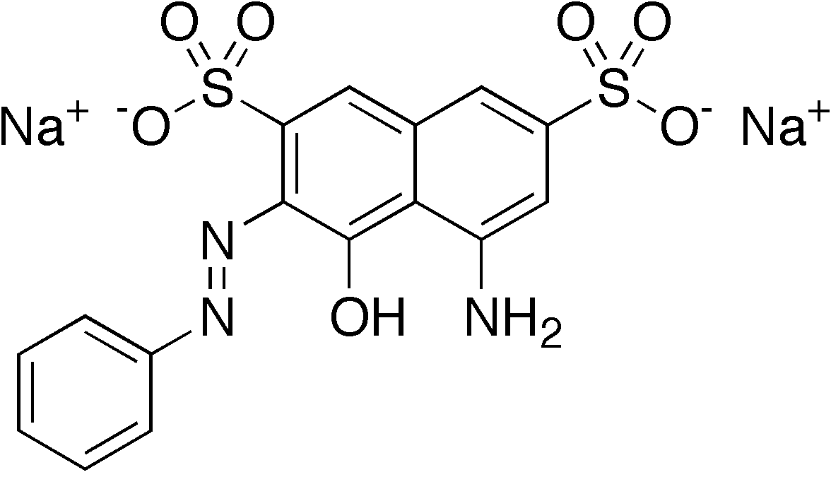 chemical structure of D&C Red 33 (Acid Red 33, Azo grenadine Azo fuchsine Acid fuchsine D Redusol Z Azo magenta G Certicol Red B Fast acid magenta Hexalan Red B Acetyl Red B Naphthalene Red B)